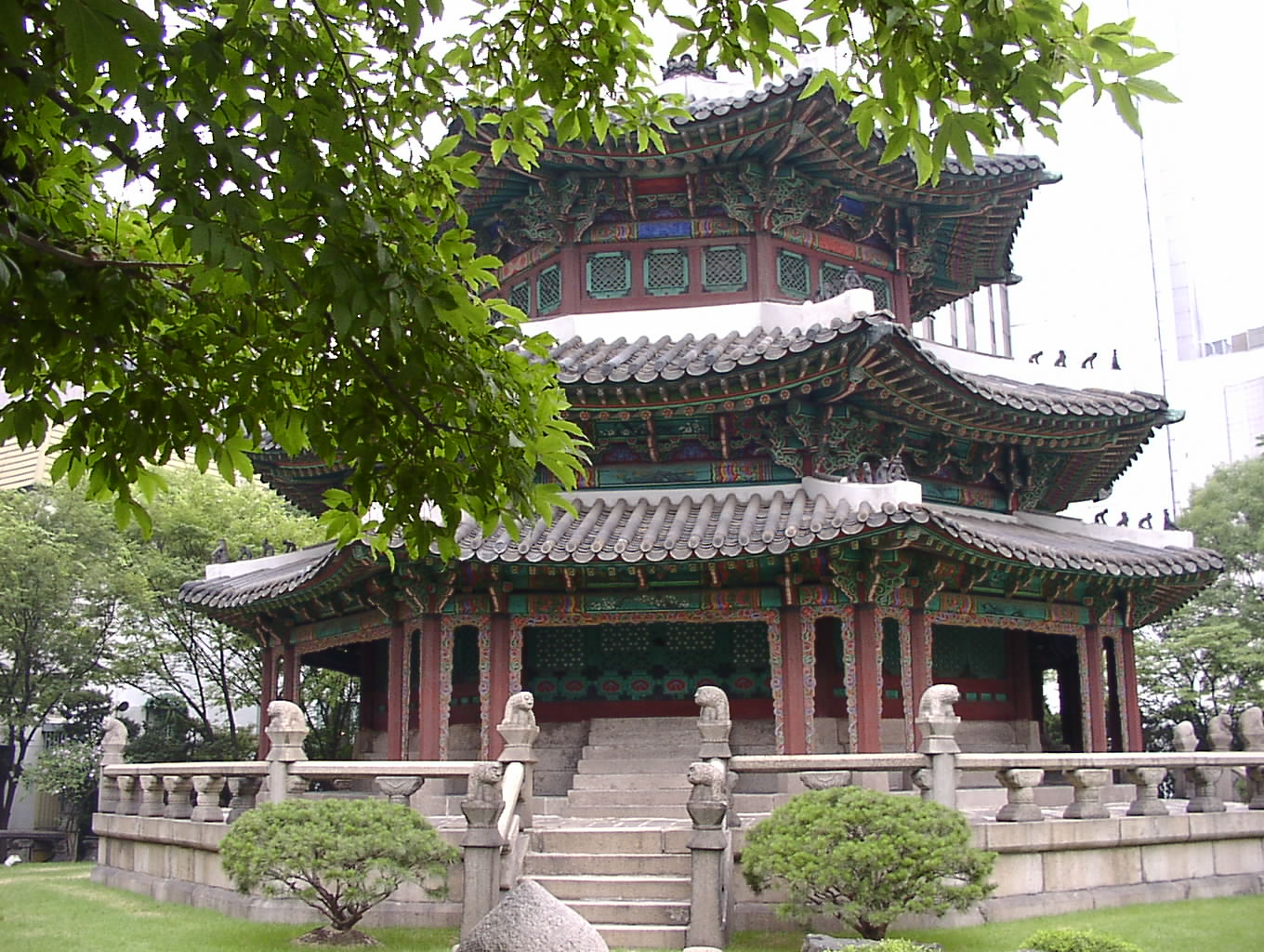 Hwangungu Hall of the Wongudan Altar complex in Seoul